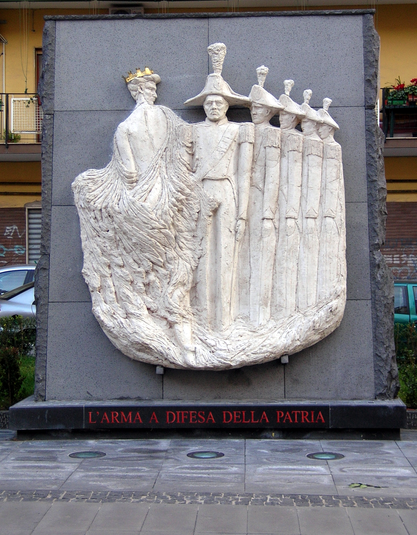 Monument to the Arma dei Carabinieri in Torre Annunziata